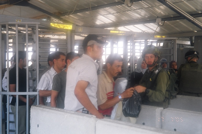 Howwarah Checkpoint, July 2005